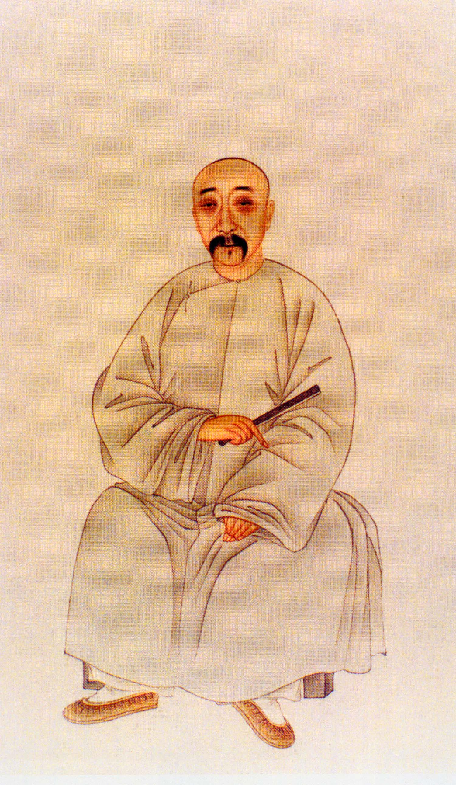 BAO Shichen, scholar of the Qing Dynasty.